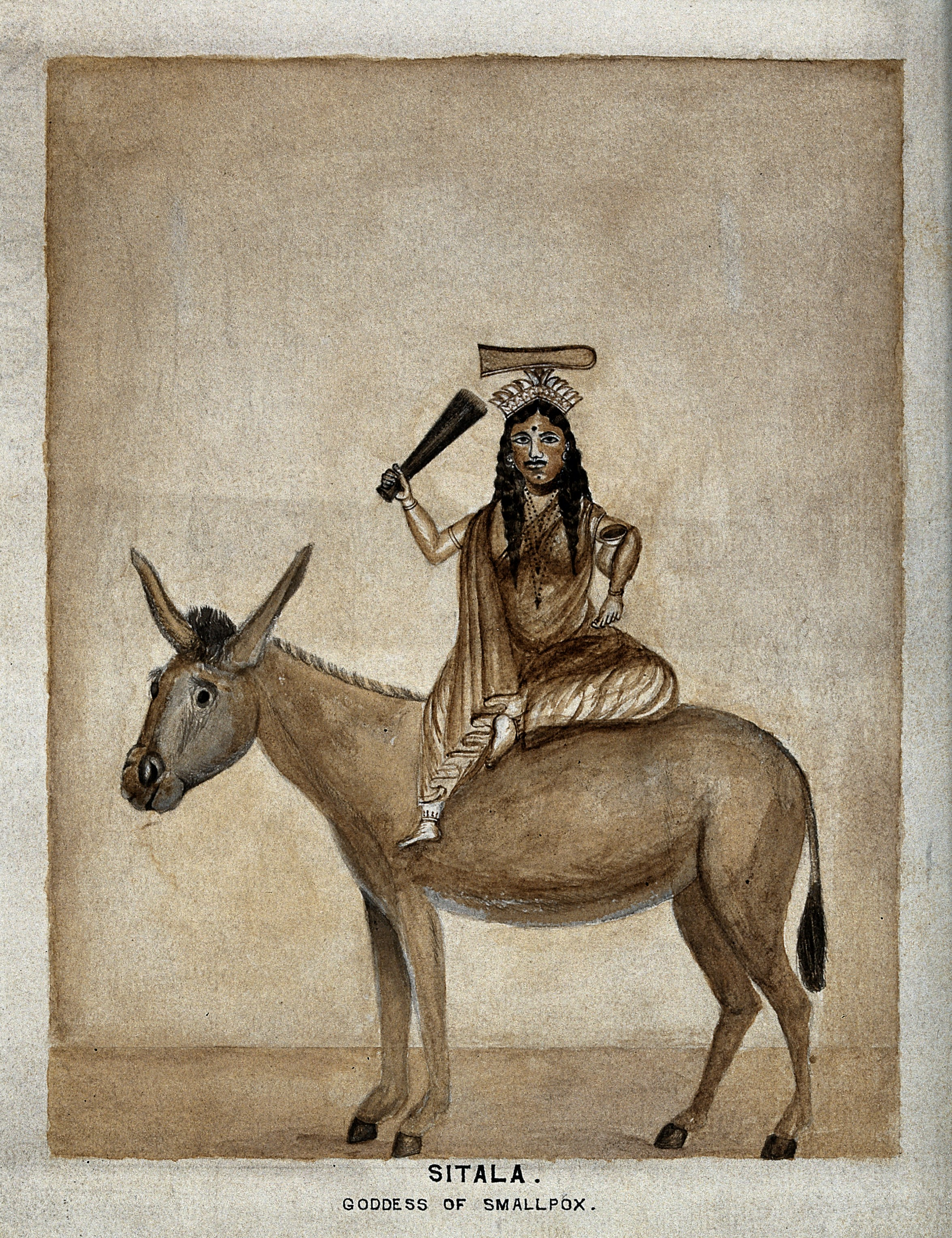 Sitala the Indian goddess of smallpox and other epidemics sitting on a donkey. "Sitala - Goddess of smallpox" Iconographic Collections Keywords: Hinduism; India; Smallpox